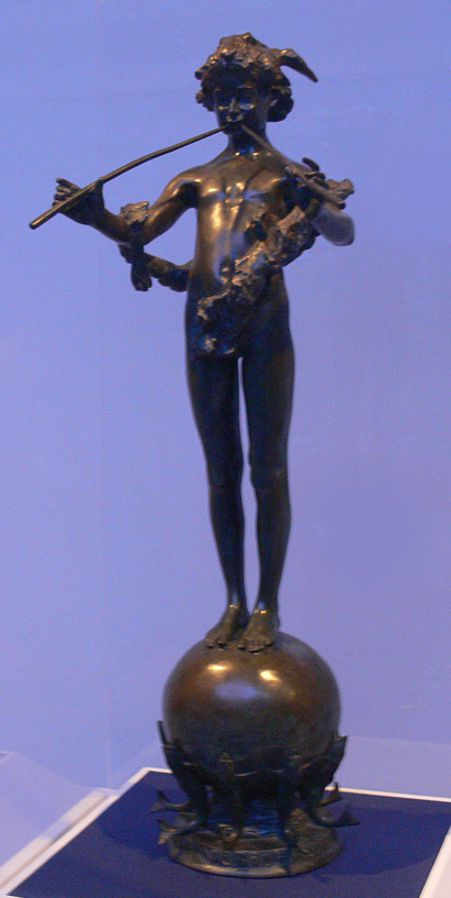 originally designed in 1890; made as a garden sculpture at a fountain at Rohallion, an estate in Rumson, New Jersey